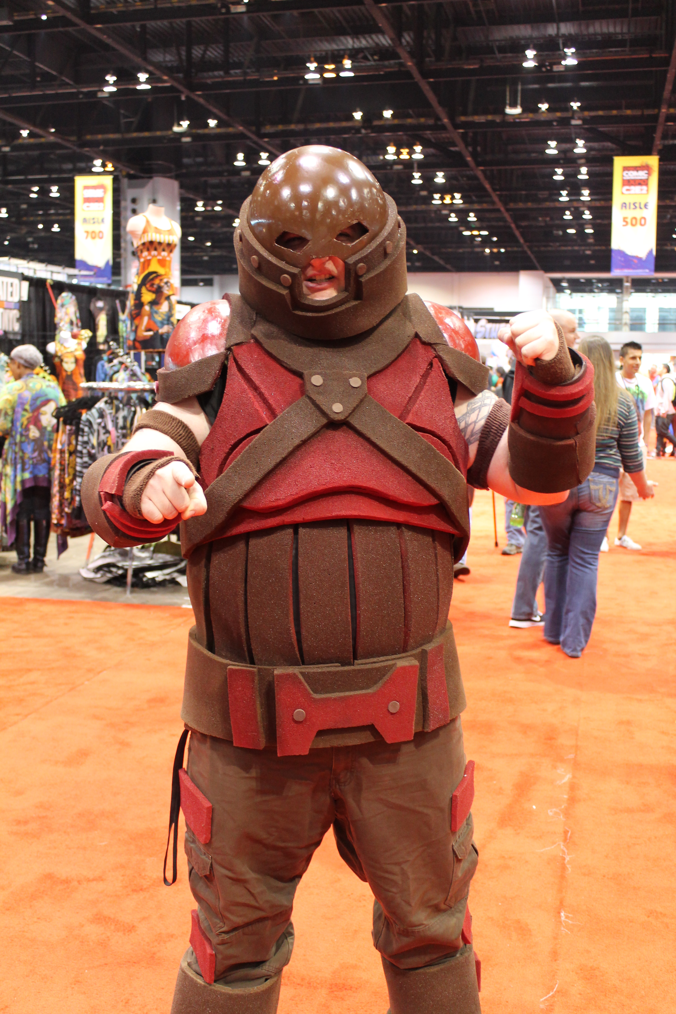 Cosplay of Juggernaut, X-Men character, 2012